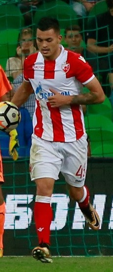 Nemanja Radonjić